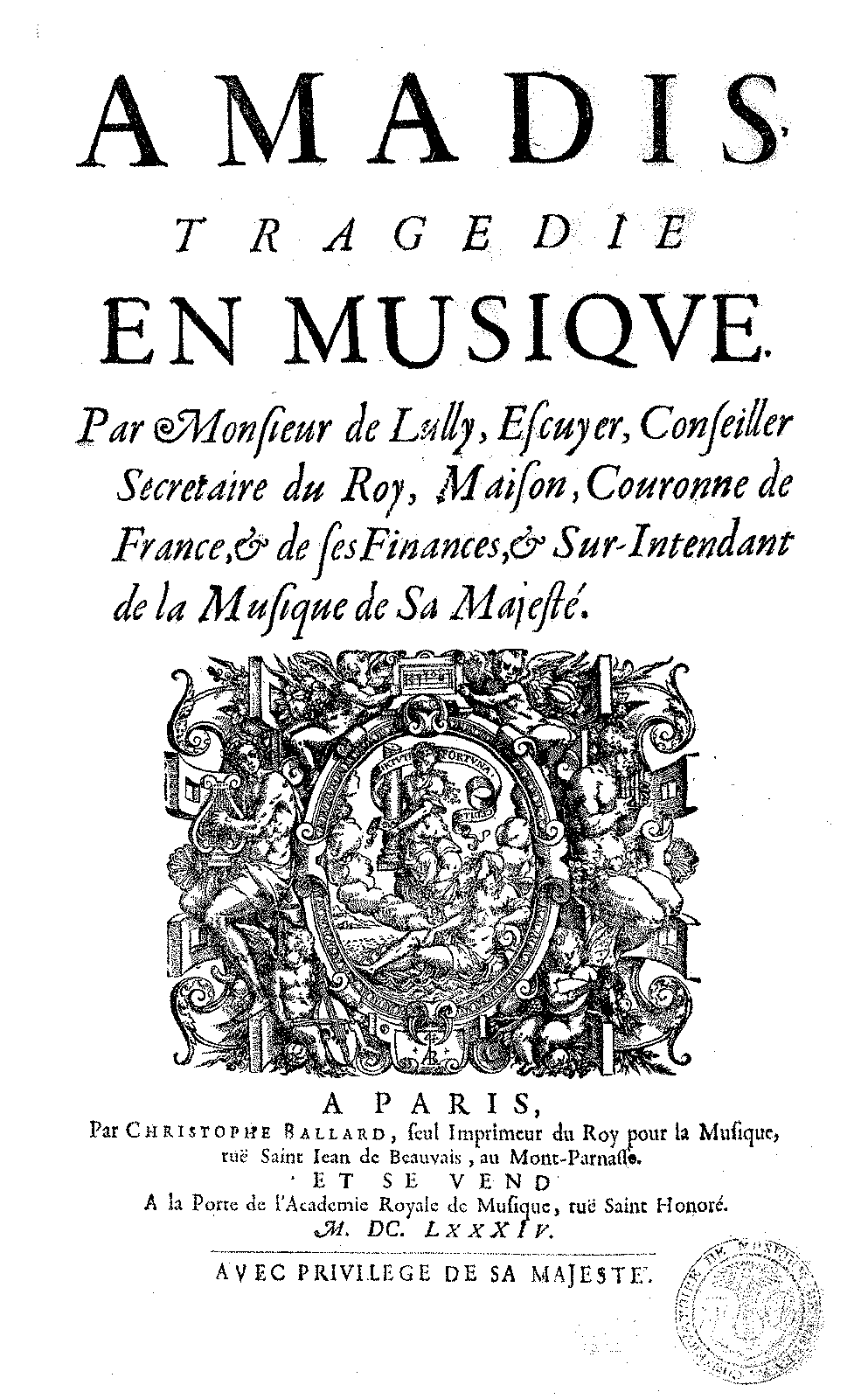 The title page of Amadis (opera by Jean-Baptiste Lully).